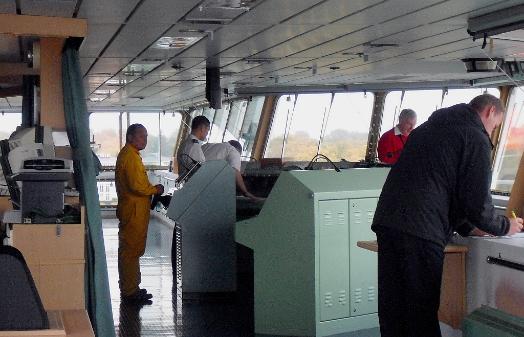 Up the river Elbe, on the bridge of the container ship OOCL Montreal, 4402 TEU - 2009